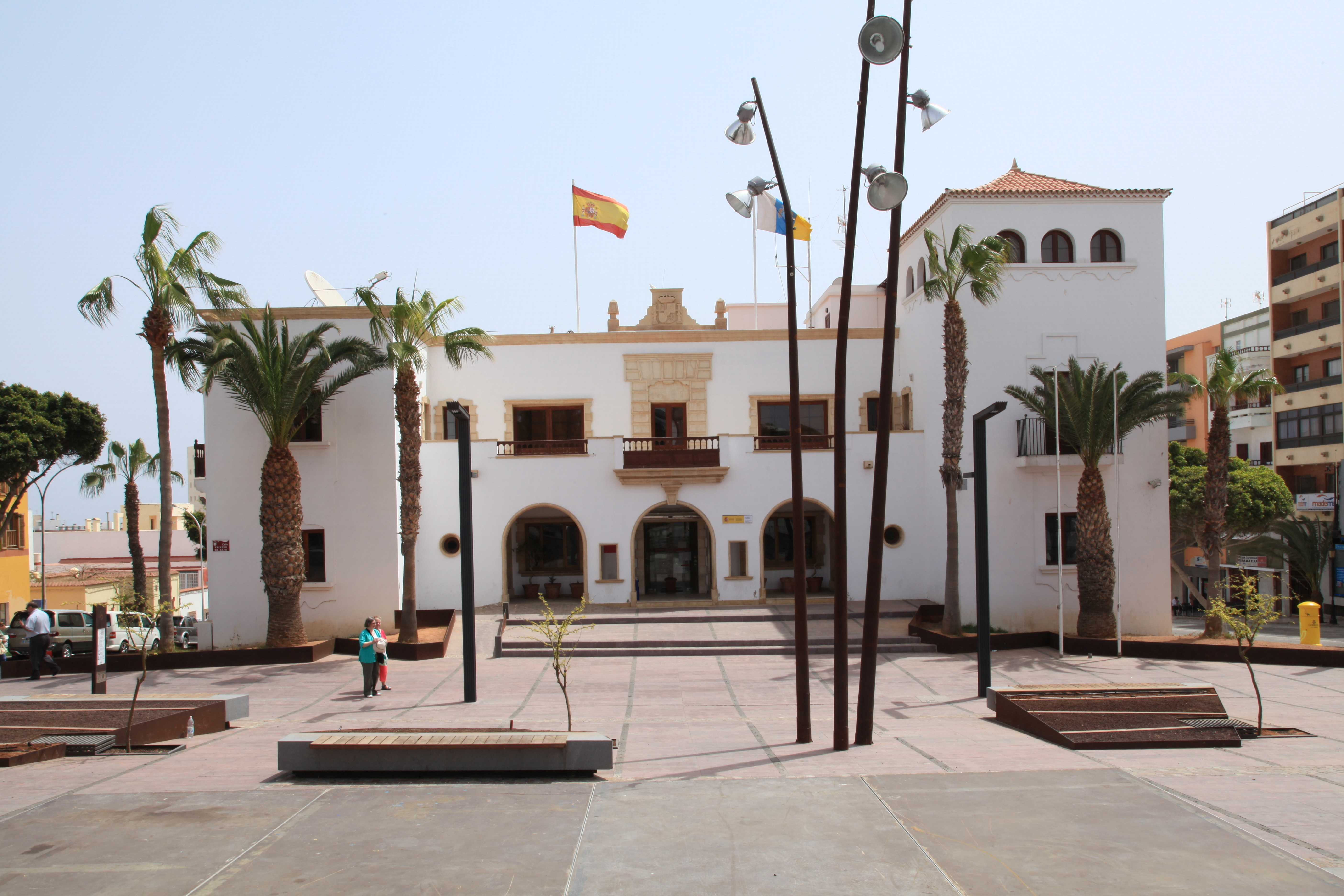 Gobierno de España, Calle Primero De Mayo in Puerto del Rosario, Fuerteventura, Canary Islands